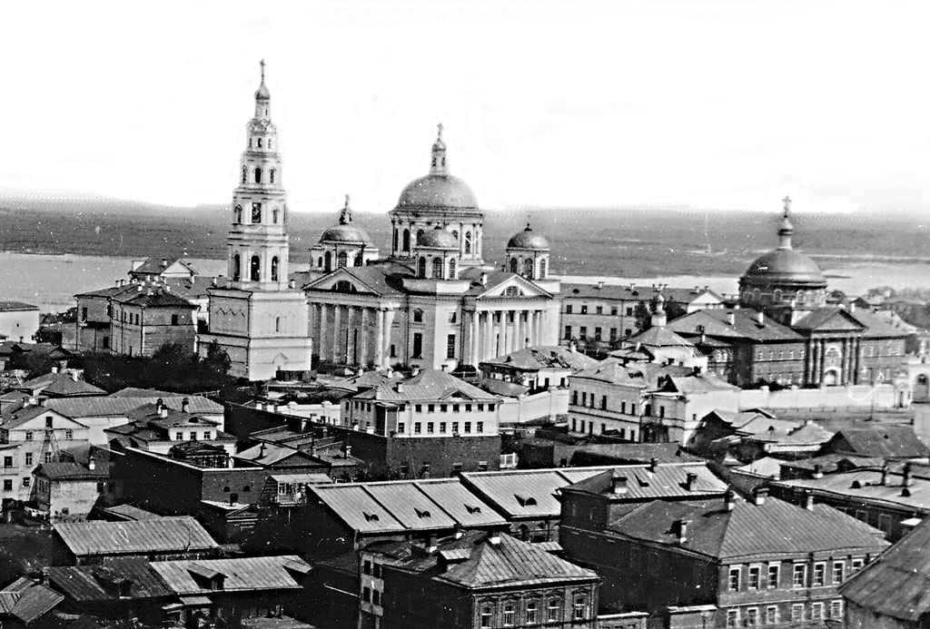 Kazanskiy Bogoroditskiy Monastery built on the spot where miraculous icon of Our Lady of Kazan was discovered